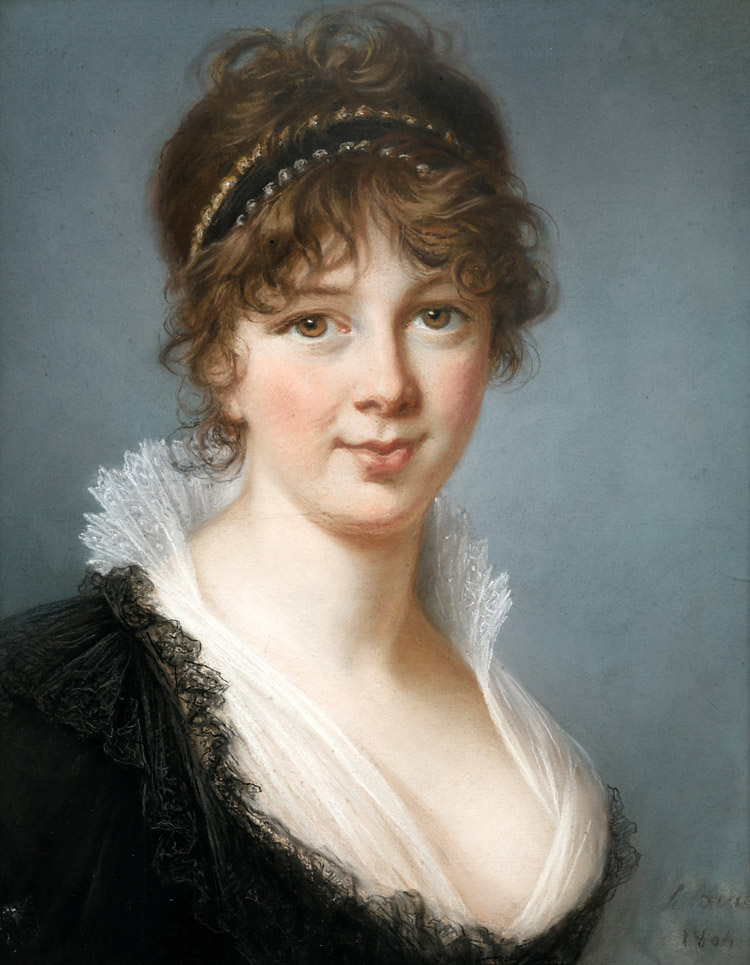 Portrait of Mrs. Spencer Perceval, née Jane Wilson (1769-1844) by Elisabeth-Louise Vigée Le Brun, 1804, pastel on paper, 19 by 14.75 in.; 48 by 37.5 cm.